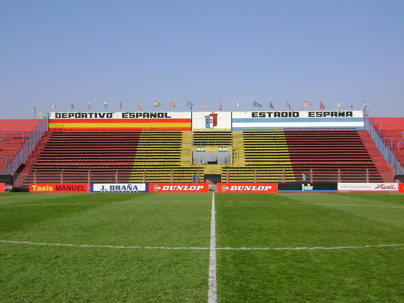 This are Estadio España´s "red & yellow" stalls